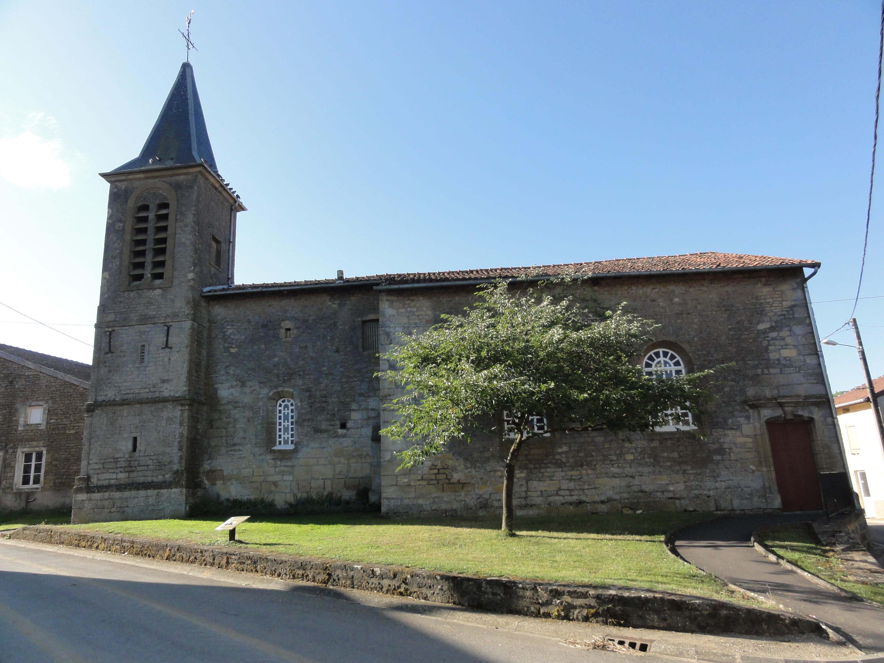 Han-devant-Pierrepont (Meurthe-et-M.) église